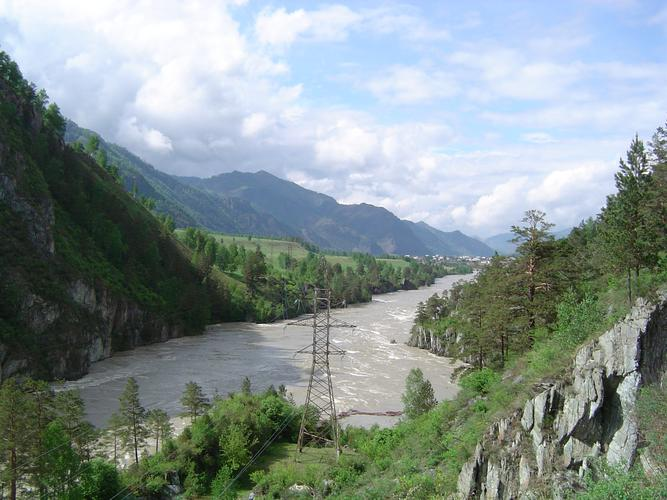 View of the upper Katun River in the Chemal region of the Altai Republic.